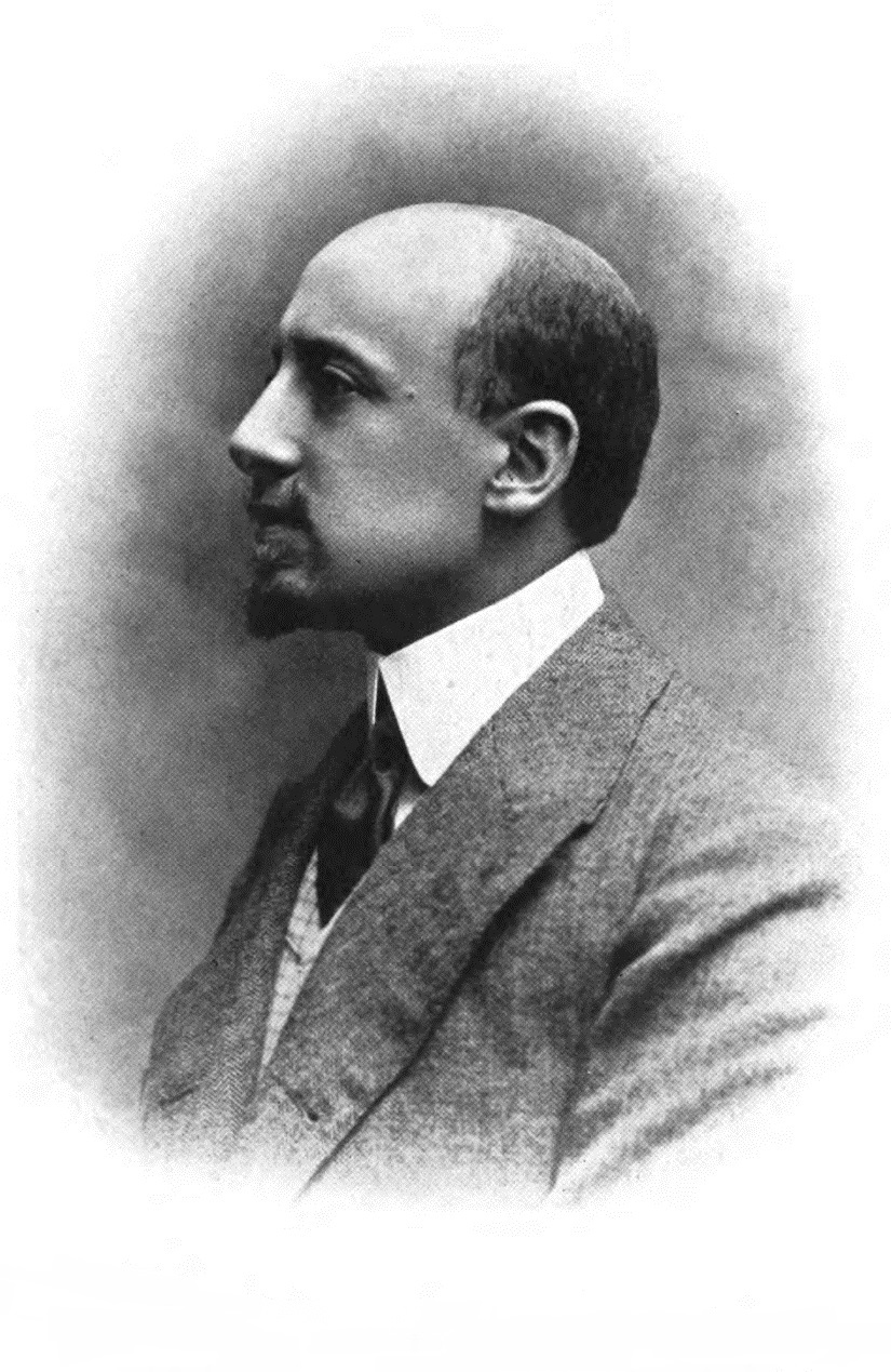 Gabriele D'Annunzio